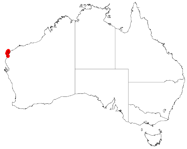 Acacia alexandri Occurrence data from Australasia Virtual Herbarium downloaded from on 8 December 2018